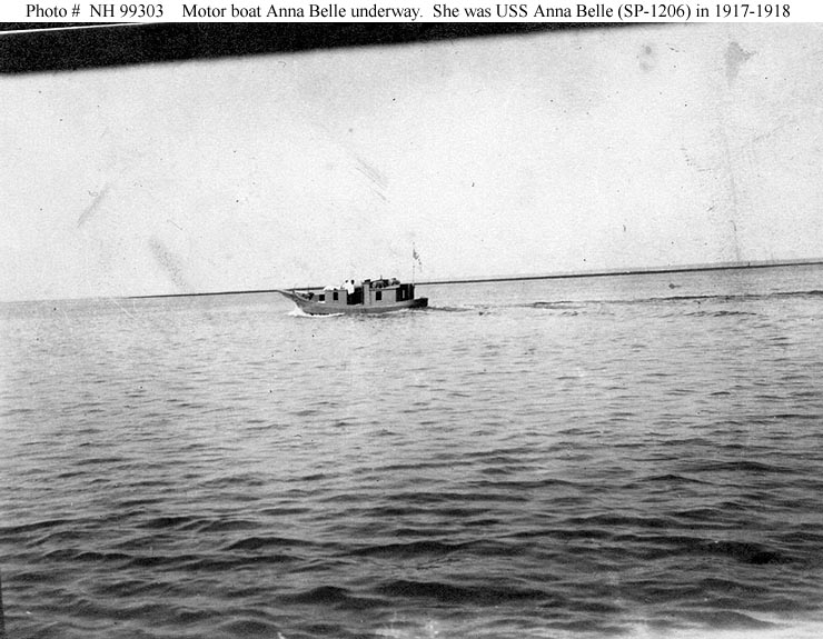 The motorboat Annabelle or Anna Belle, probably in private use prior to her United States Navy service as the patrol vessel (or USS Anna Belle) during World War I.